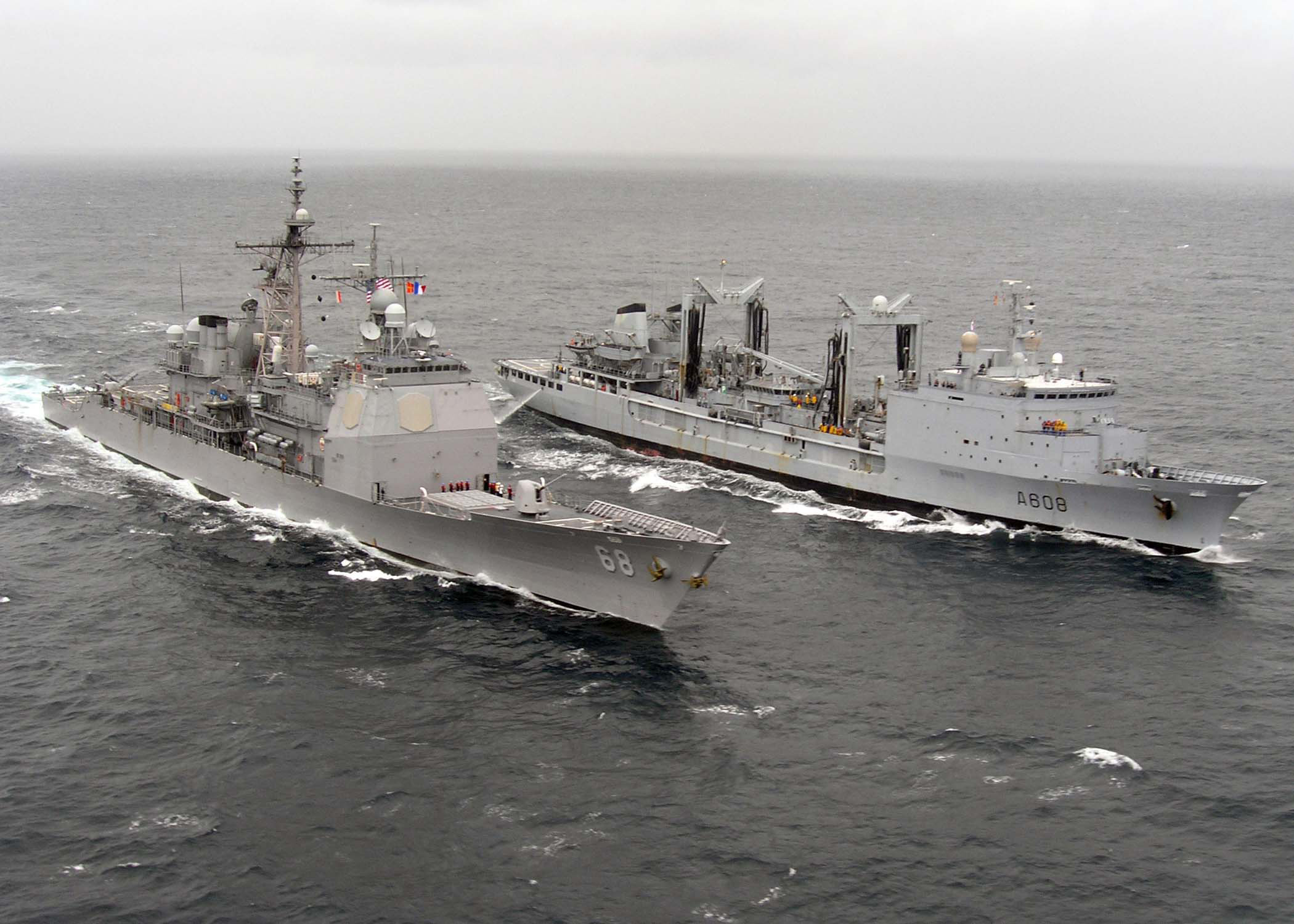 Arabian Sea (Dec. 4, 2006) - The guided-missile cruiser USS Anzio (CG 68) and the French FS Var (A 608) perform an underway replenishment. The ships also exchanged three officers for a day, giving them an opportunity to serve on a fellow coalition ship. Anzio is currently performing Maritime Security Operations (MSO) as a part of the Eisenhower Carrier Strike Group. U.S. Navy photo by Aviation Warfare Systems Operator 3rd Class Shawn Cossins (RELEASED)